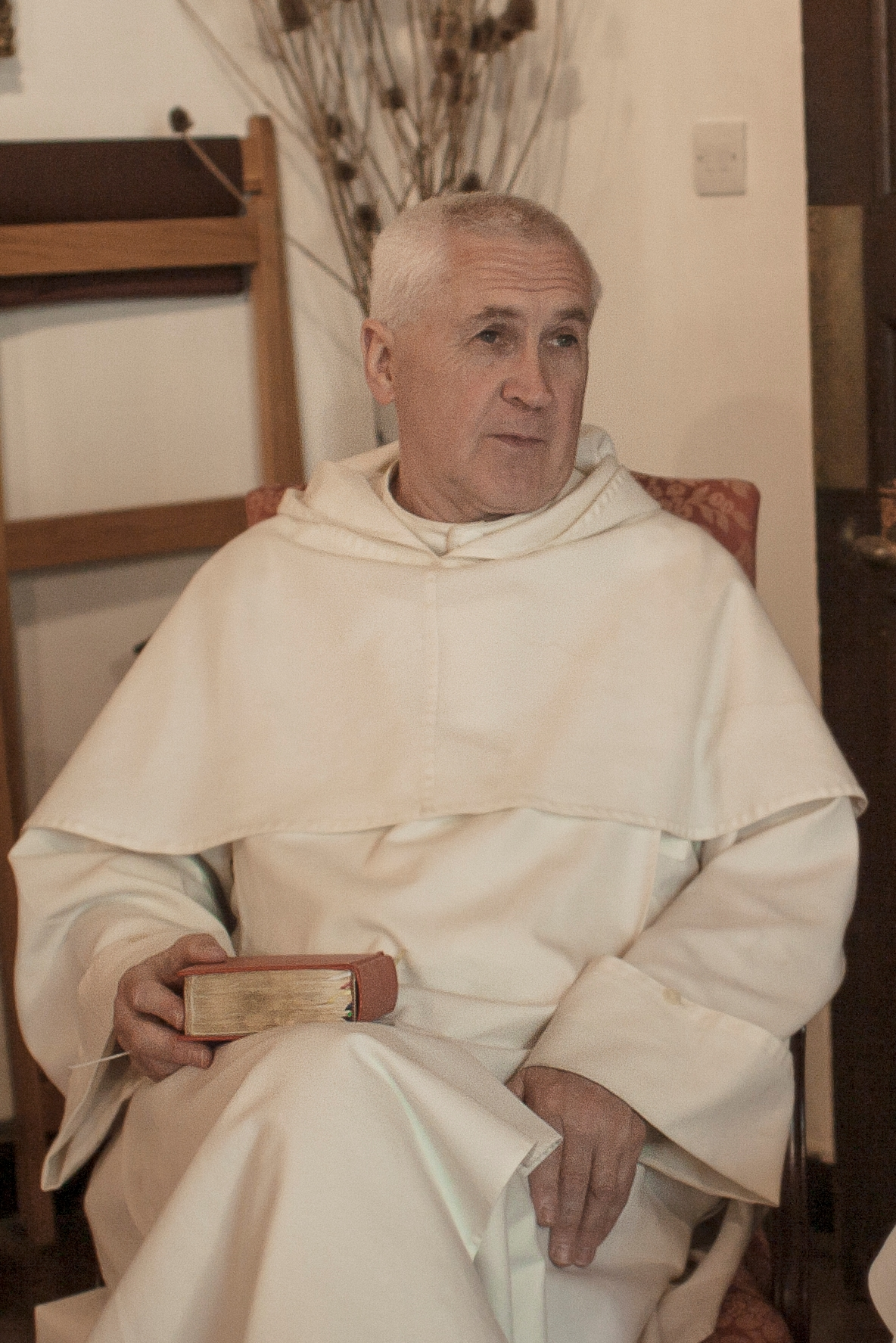 Fr. John Christopher "Aidan" Nichols reading a prayerbook